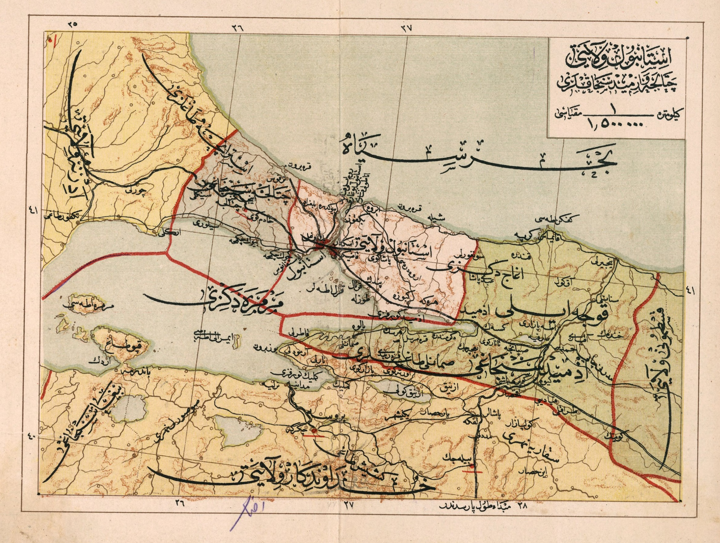 Istanbul Vilayet with the Sanjaks of Çatalca and Izmit — Memalik-i Mahruse-i Şahaneye Mahsus Mukemmel ve Mufassal Atlas (1907)